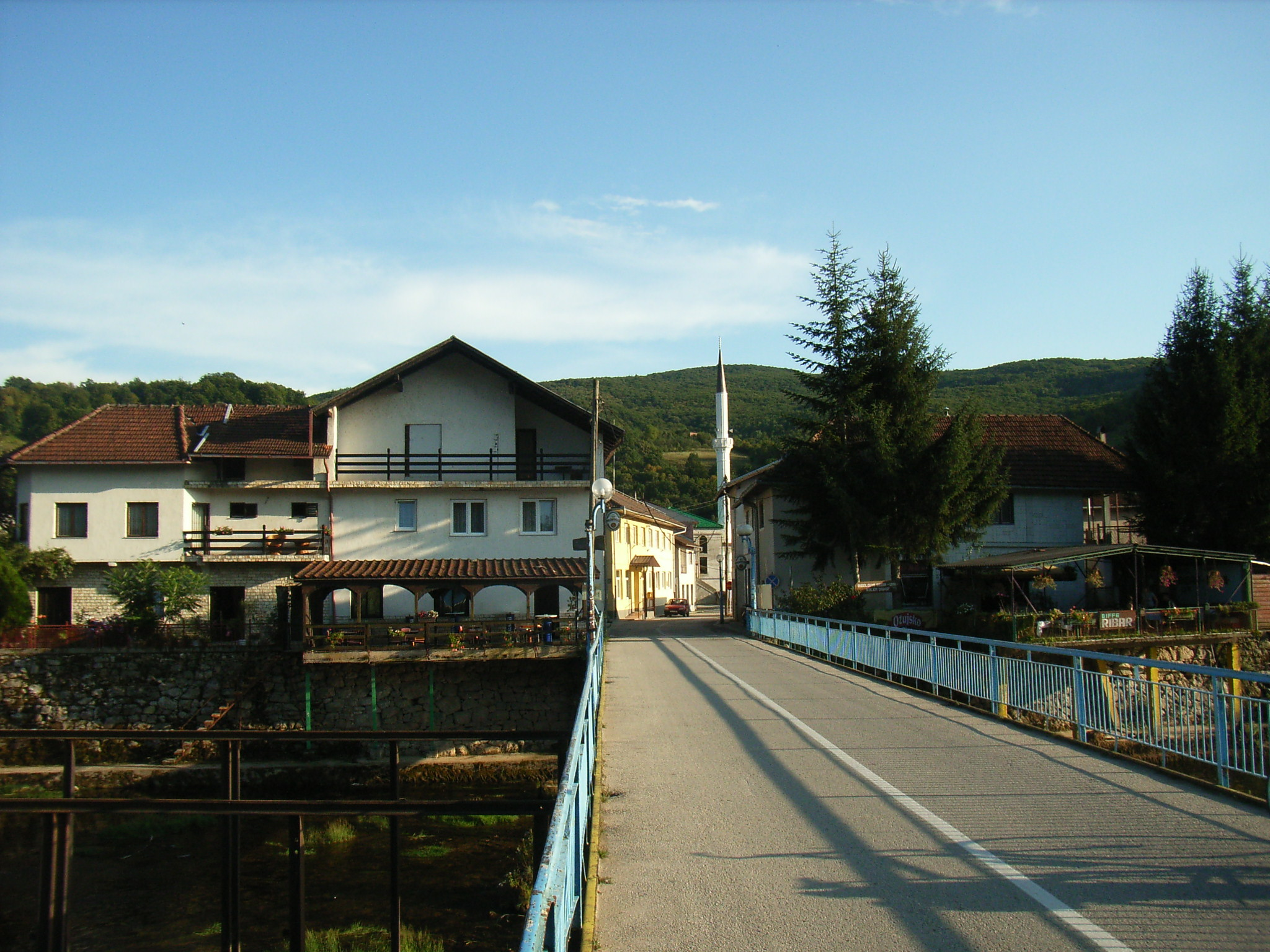 Bosnia, Una River bridge in Kulen Vakuf.